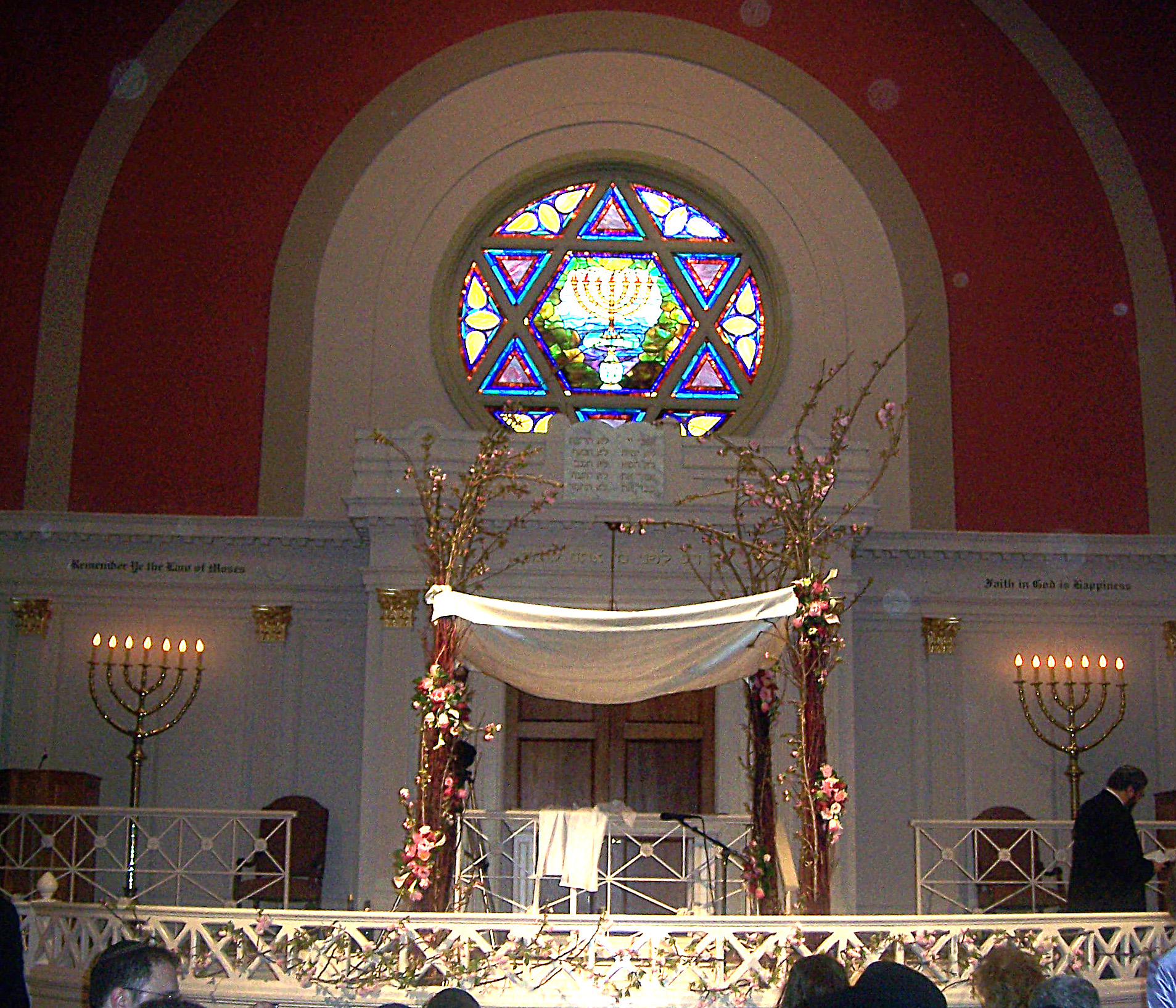 A chupah, (the canopy under which a Jewish wedding is held), at the sixth and I synagogue in Washington D.C.